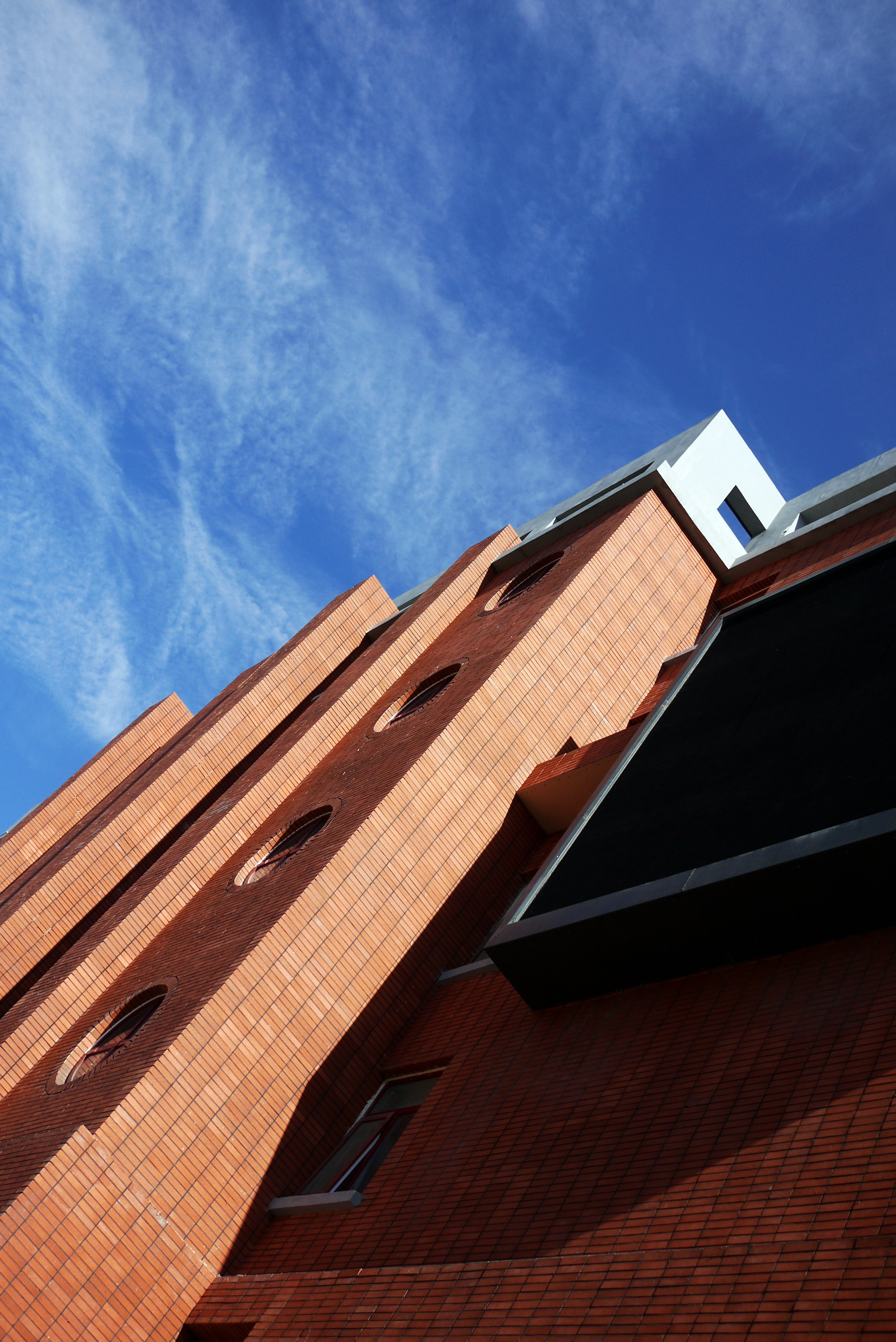 Beijing National Day School Student Apartment.